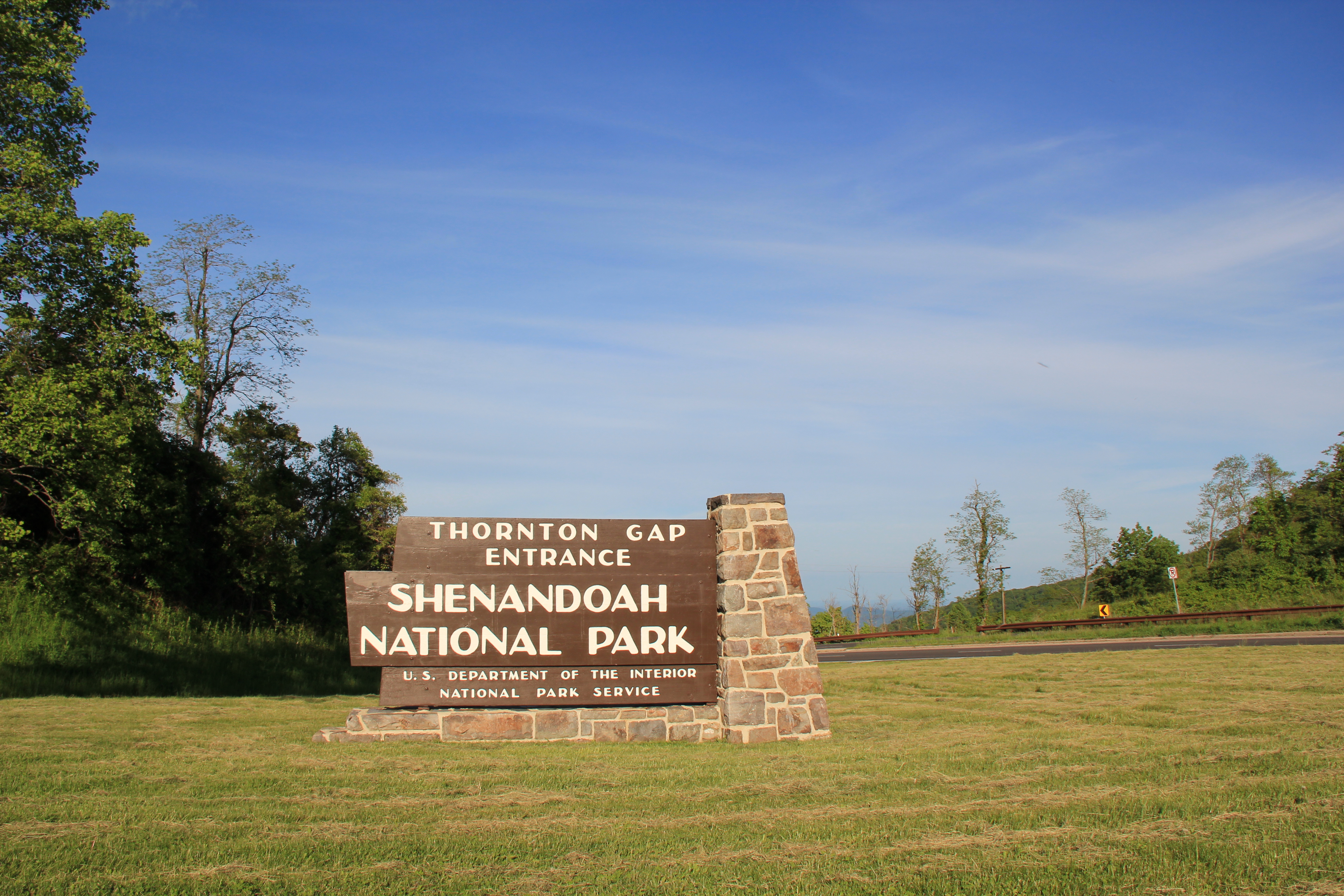 Entrance sign to Thornton Gap on Skyline Drive, along U.S. Route 211 in Shenandoah National Park.